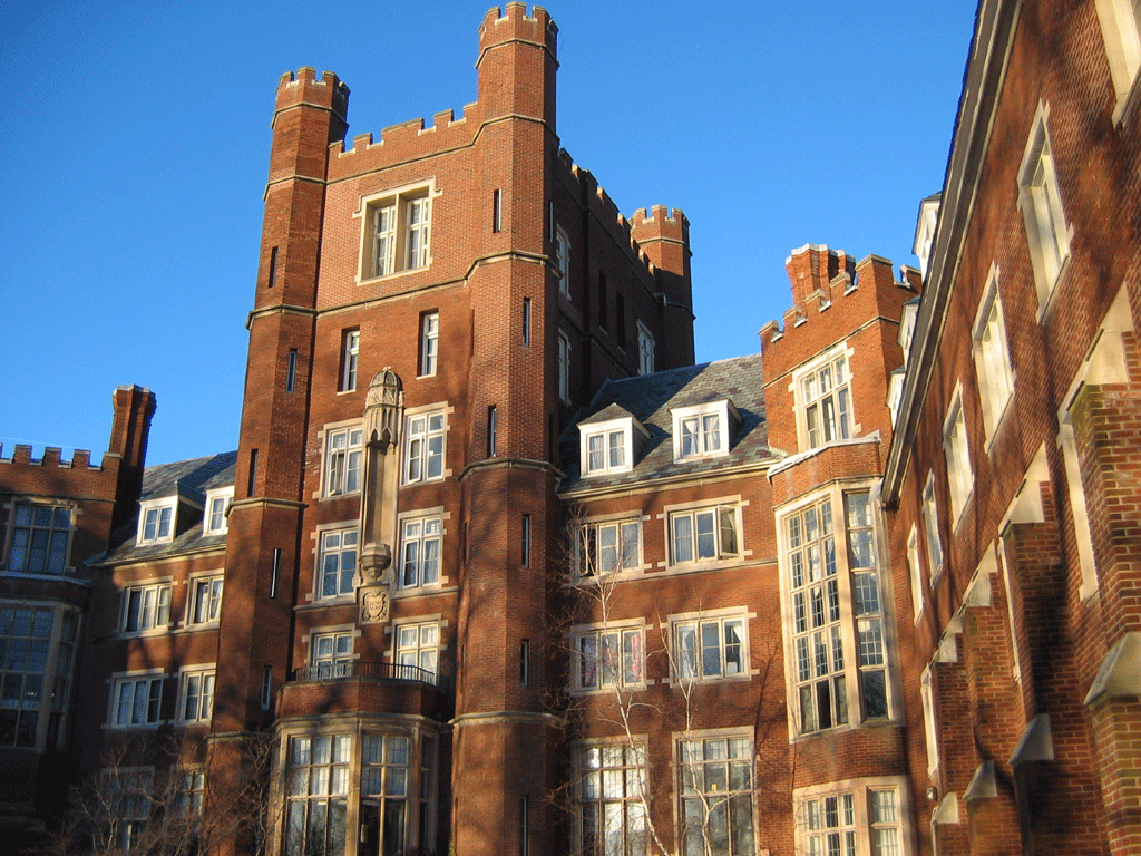 Personal photo, release rights. Risley Hall, Backyard